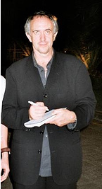 Actor Jonathan Pryce